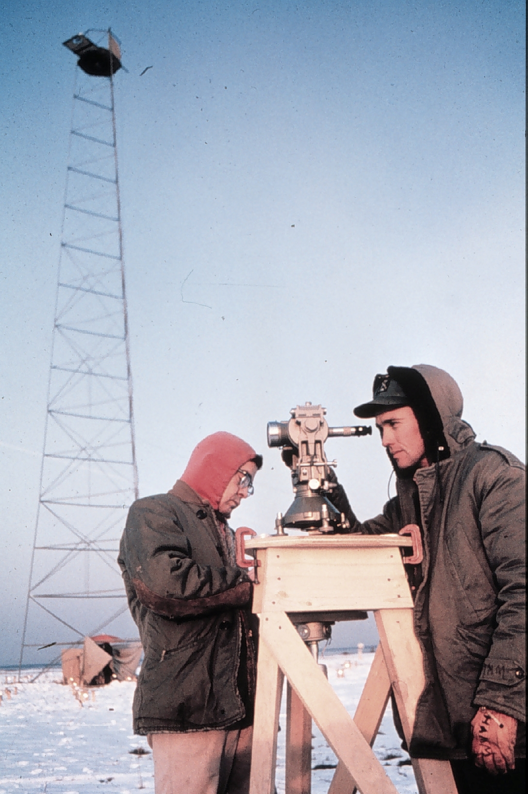 Observing with Wild T-3 theodolite on Arctic field party. Image ID: theb1982, Historic C&GS Collection Location: Arctic coast of Alaska Photo Date: 1950? Credit: NOAA